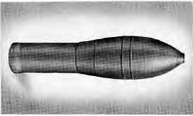 30 cm Wurfkorper 42 Spreng Profile